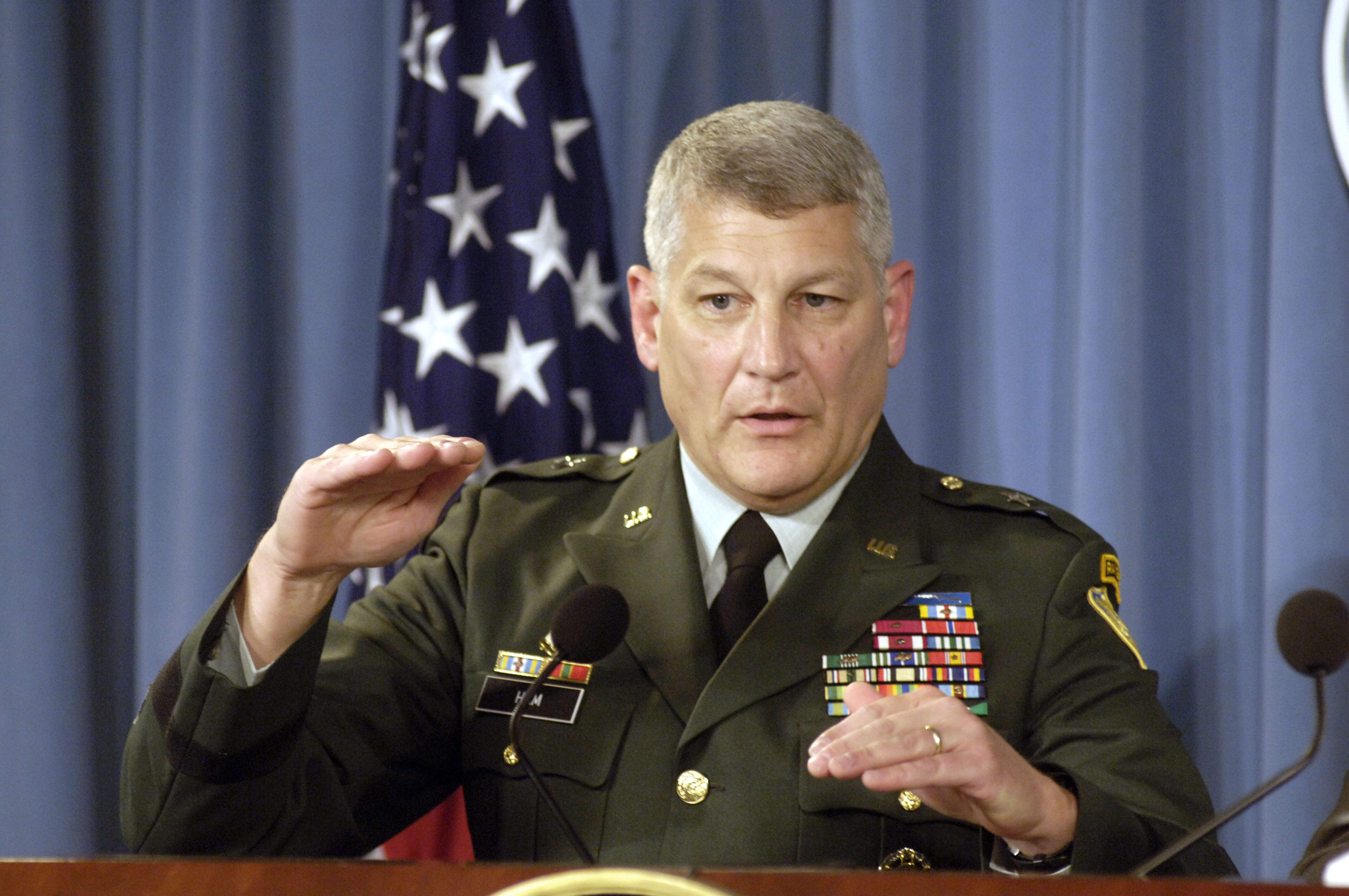 Joint Staff Deputy Director for Operations Brig. Gen. Carter F. Ham, U.S. Army, responds to a reporter's question during a Pentagon press briefing on Oct. 6, 2005. Ham and Principal Deputy Assistant Secretary of Defense for Public Lawrence Di Rita conducted the briefing.